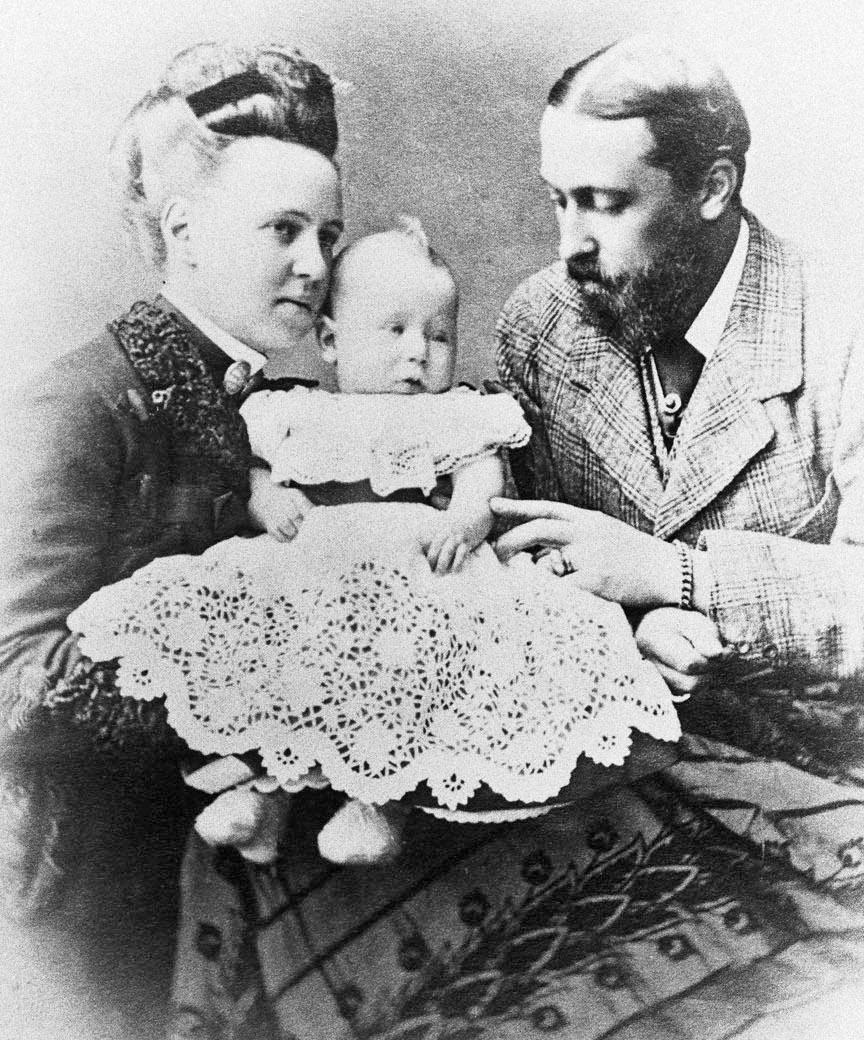 Alfred, Duke of Edinburgh, his wife and his eldest son.